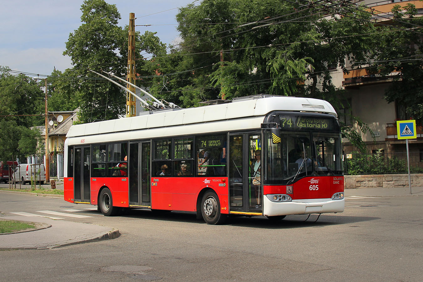 Solaris Trollino 12 (no. 605) on line 72 in Budapest, Hungary